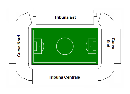 Stadium map of the Stadio Ennio Tardini.